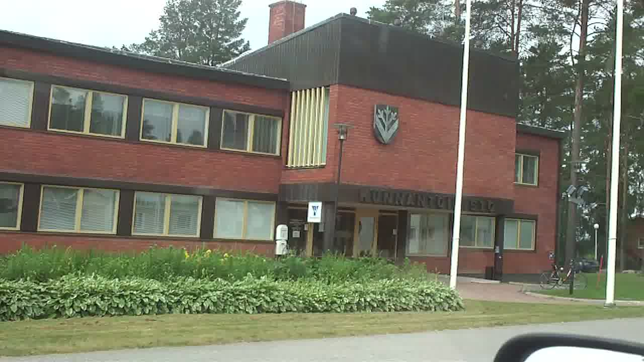 Town hall. In Vieremä, Eastern Finland, Vieremä.